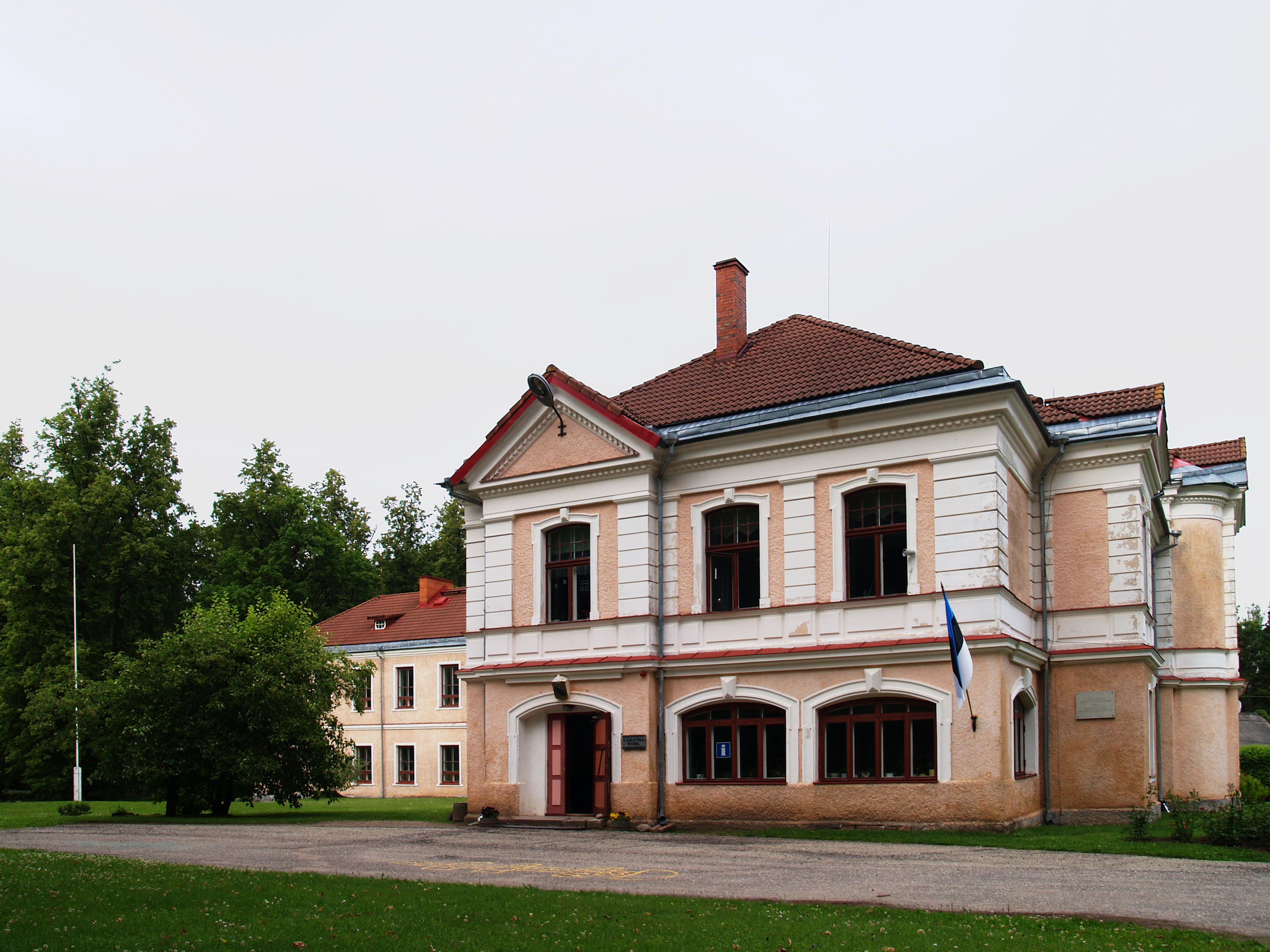 Kärsna manorhouse. Today home of Kärstna school.